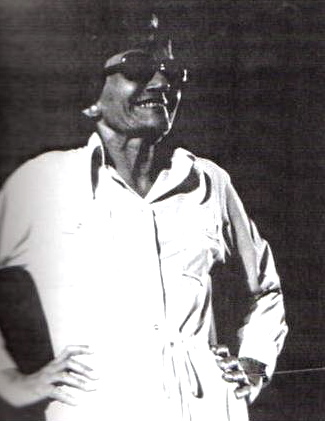 Blackie